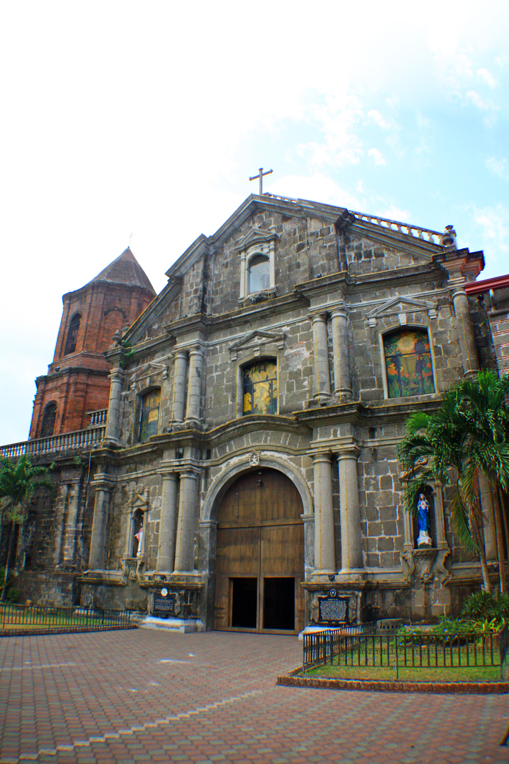 Diocesan Shrine of Saint Anthony of Padua